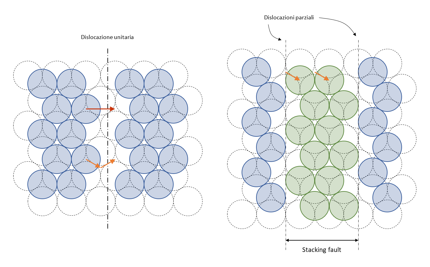 Left - Glide mechanisms for a total edge dislocation on a {111} plane in direction. The dislocation (its line is located precisely on the plane of dashed atoms, and the extra half-plane extends in the entering direction) can force the blue atoms to move by a single jump or by two easier shifts along the valleys in the underlying atomic layer (the two possibilities are highlighted in red and orange, respectively). Right - Stacking fault limited by two partial dislocations. If the glide happens according to the second manner, at the end of the first jump the shifted atoms find themselves in an irregular position within the green region, which therefore represents the stacking fault area, limited by two partial dislocations.